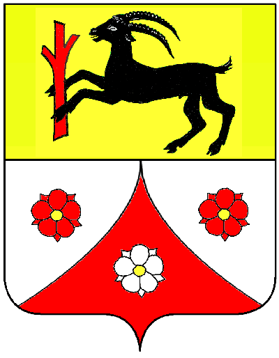 Coat of arms of the municipality of Badia, South Tyrol.